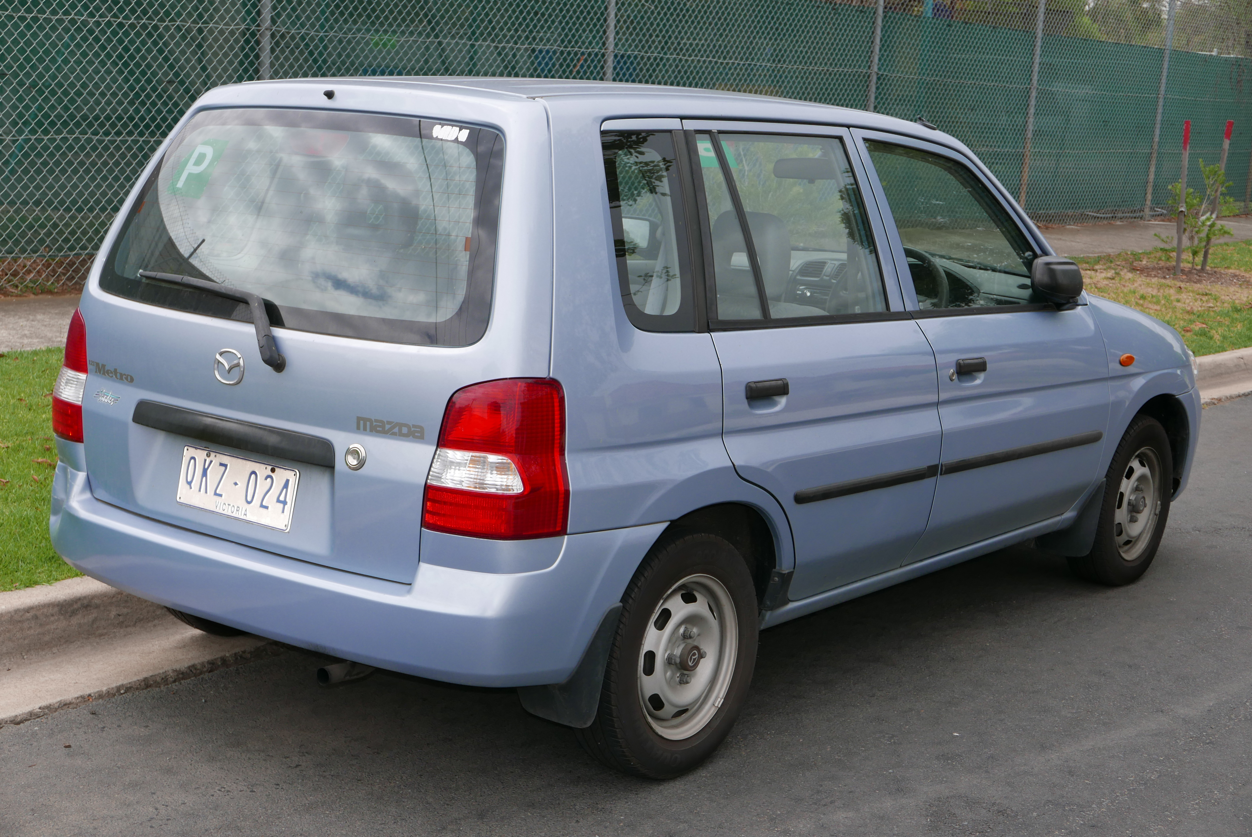 2000 Mazda 121 (DW Series 2) Metro Shades hatchback. Photographed in Coburg, Victoria, Australia. Vehicle registration enquiry resultsJurisdictionVictoriaRegistrationQKZ024Chassis codeJM0DW103200202945Engine codeB3301339Compliance date2000-09Year of manufacture2000